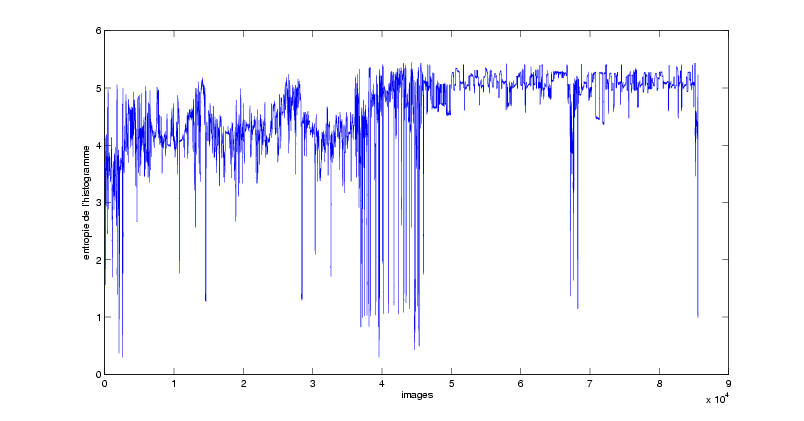 Entropy of luminance histogram on TV frames